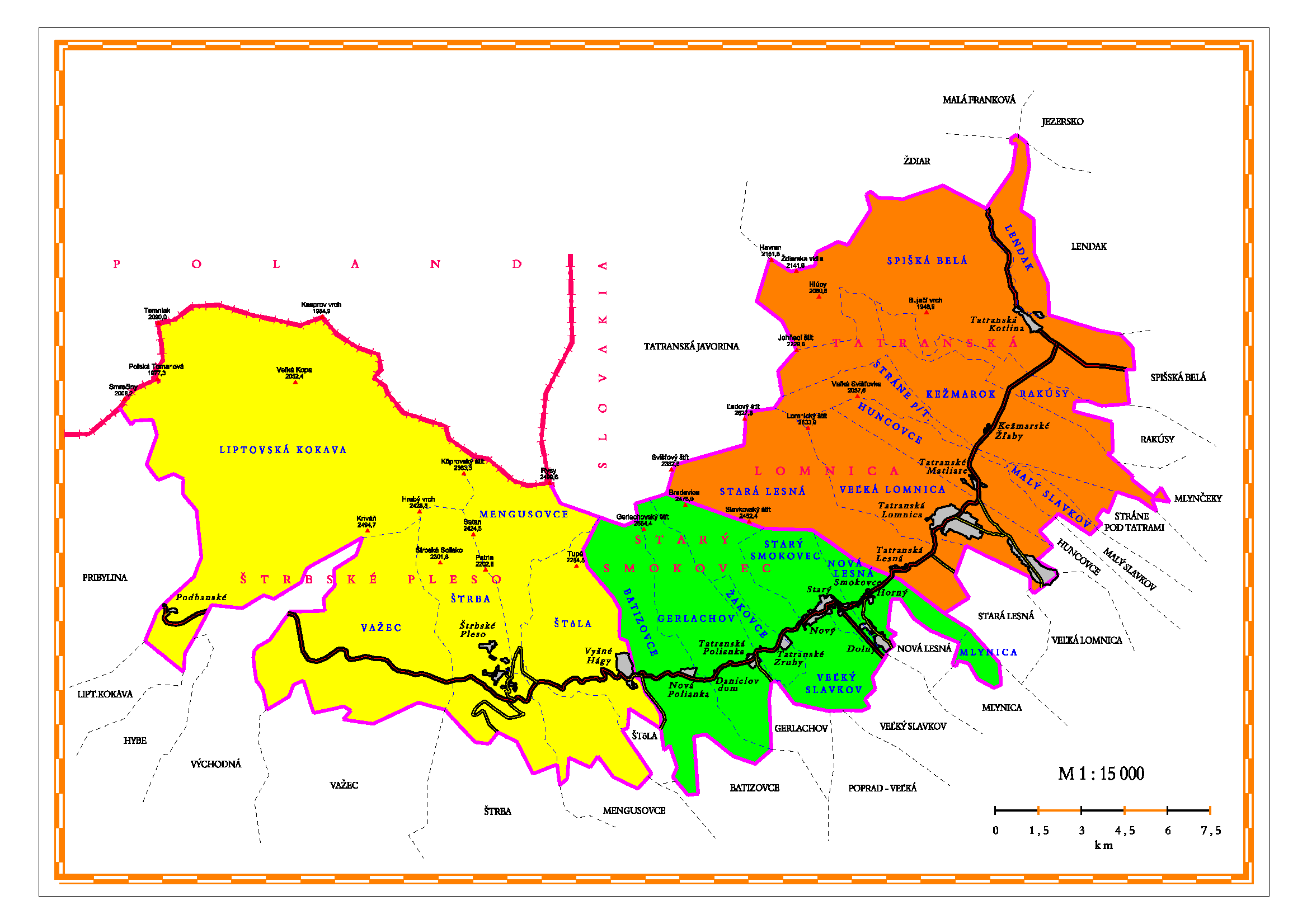 Former boundaries of villages in present-day town of Vysoké Tatry (before 1947)